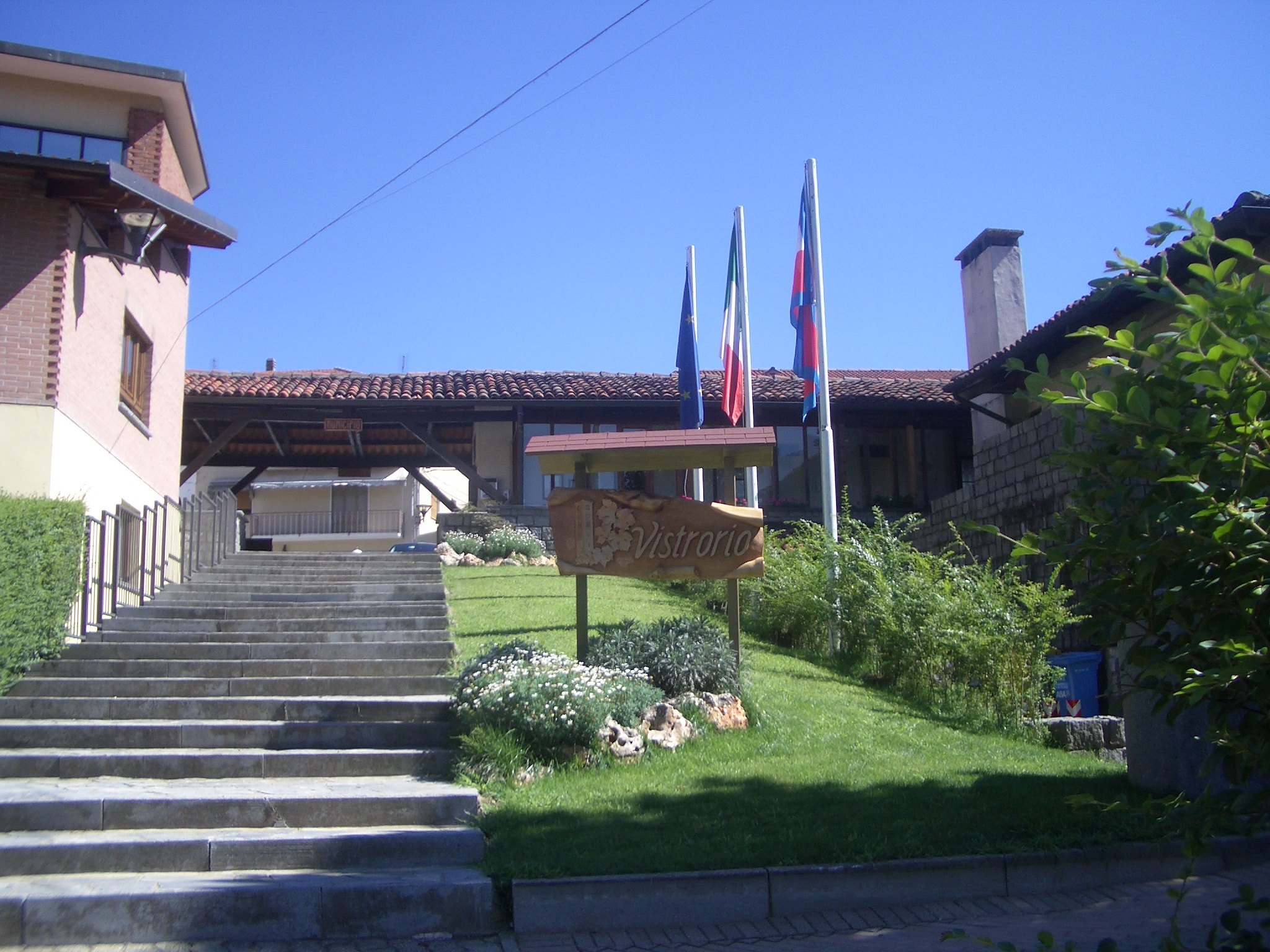 Vistrorio, Town-Hall